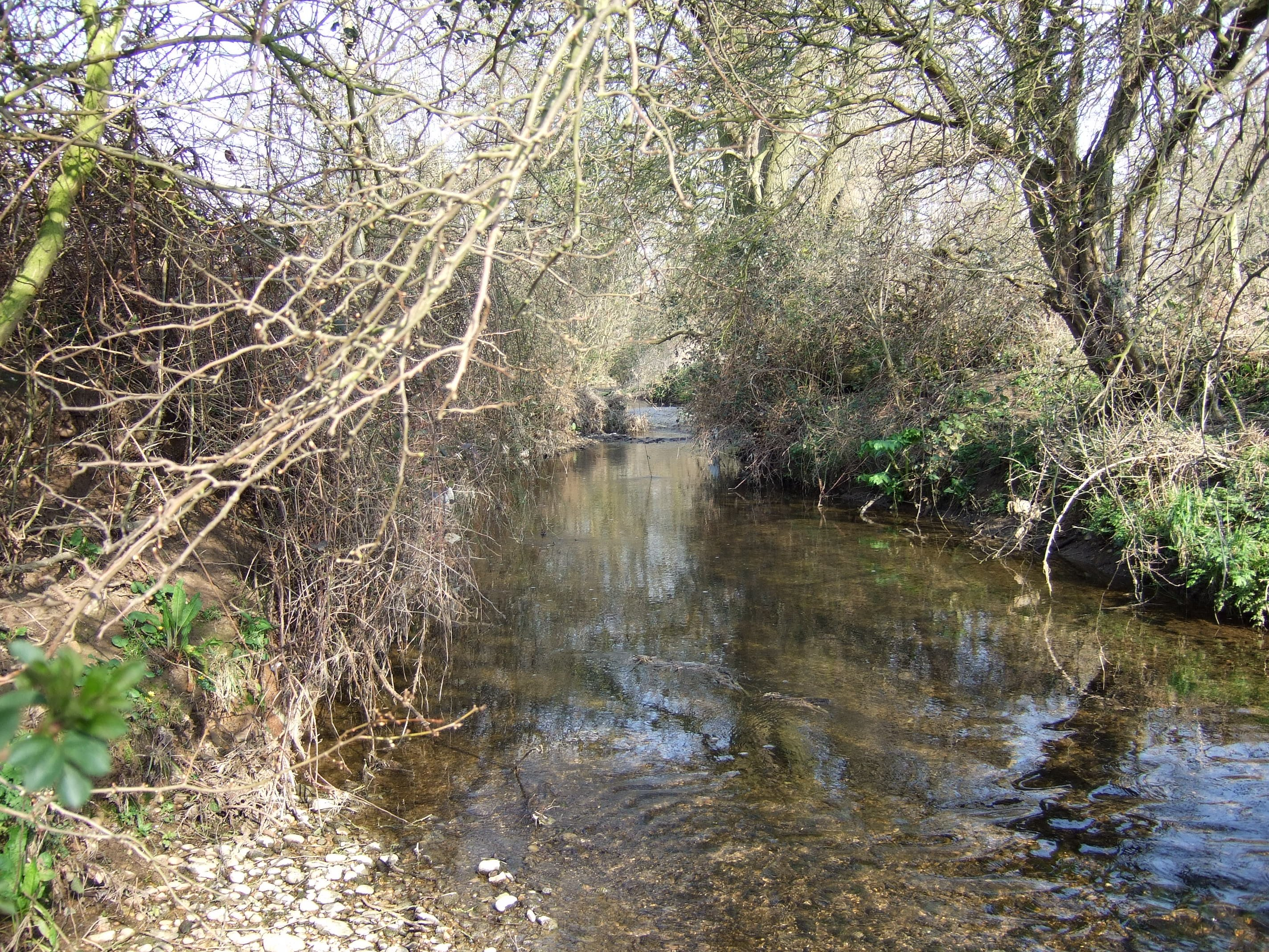 Picture of Kingston Brook at East Leake Nottinghamshire. Picture taken by author John Beniston.